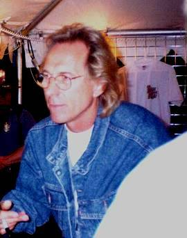 Gary Puckett, of the 1960s band The Union Gap. Photo taken in Boston several years ago.